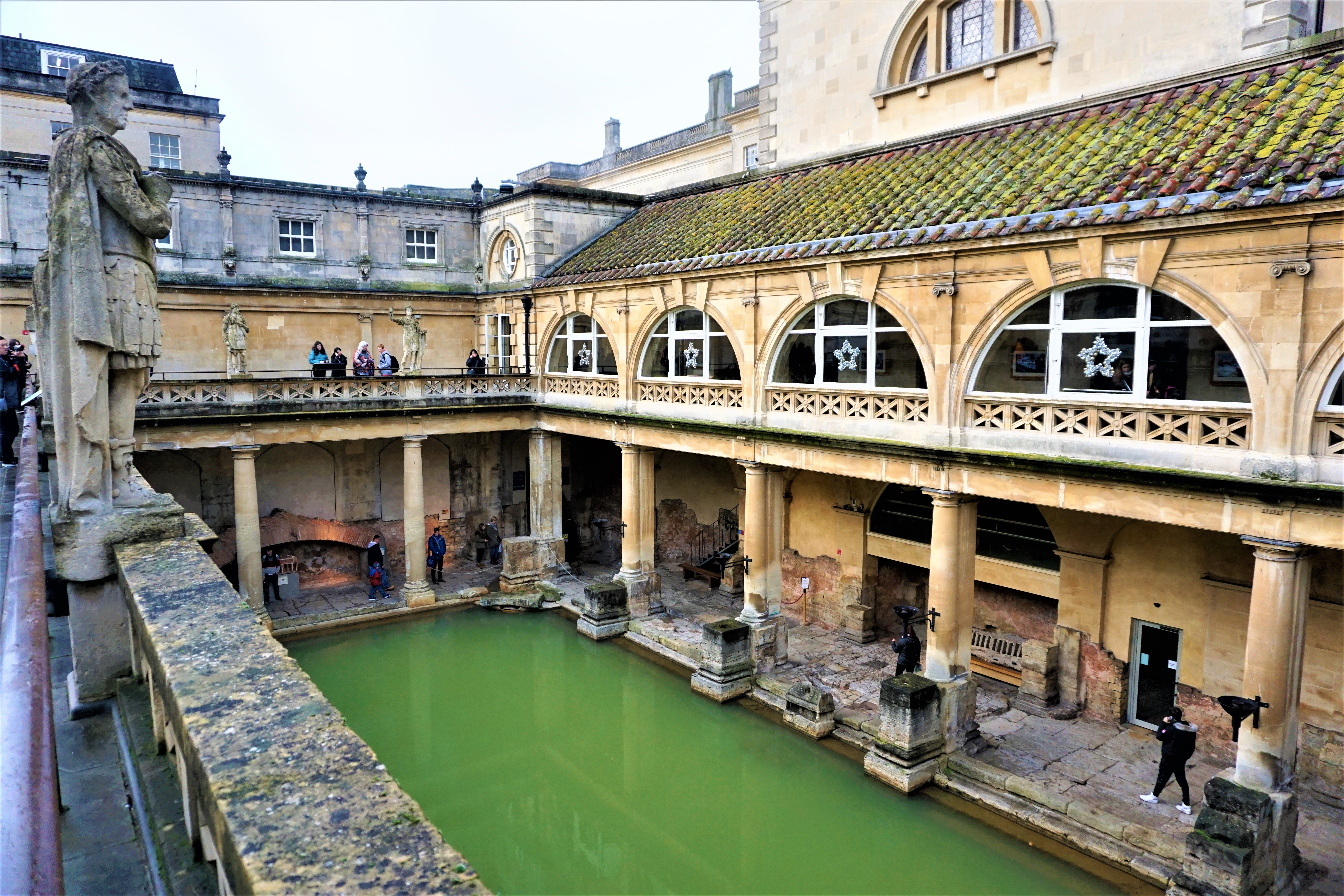 Roman Bath House - - Roman Baths (Bath)